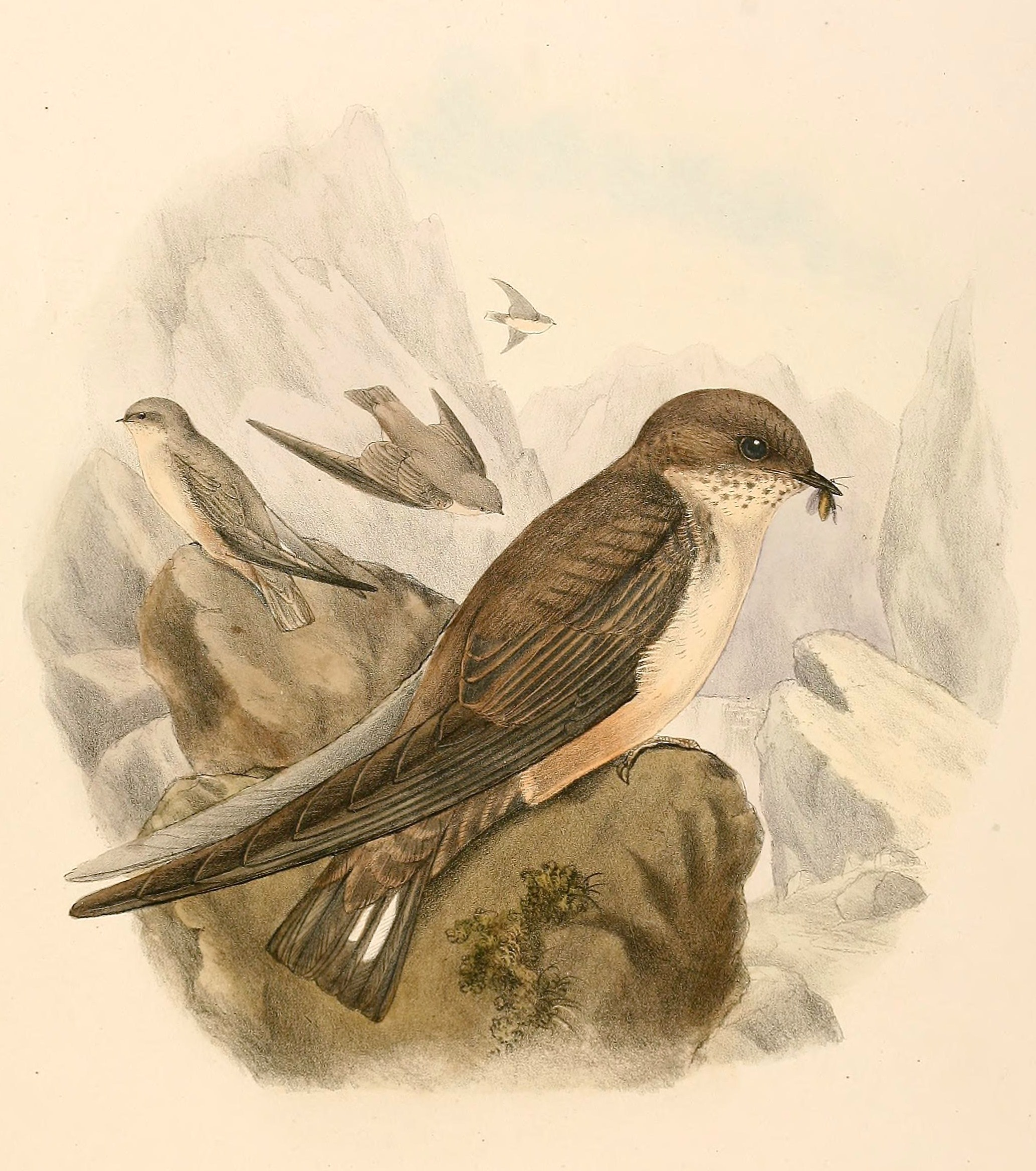 « Cotile rupestris » = Ptyonoprogne rupestris (Eurasian Crag Martin)